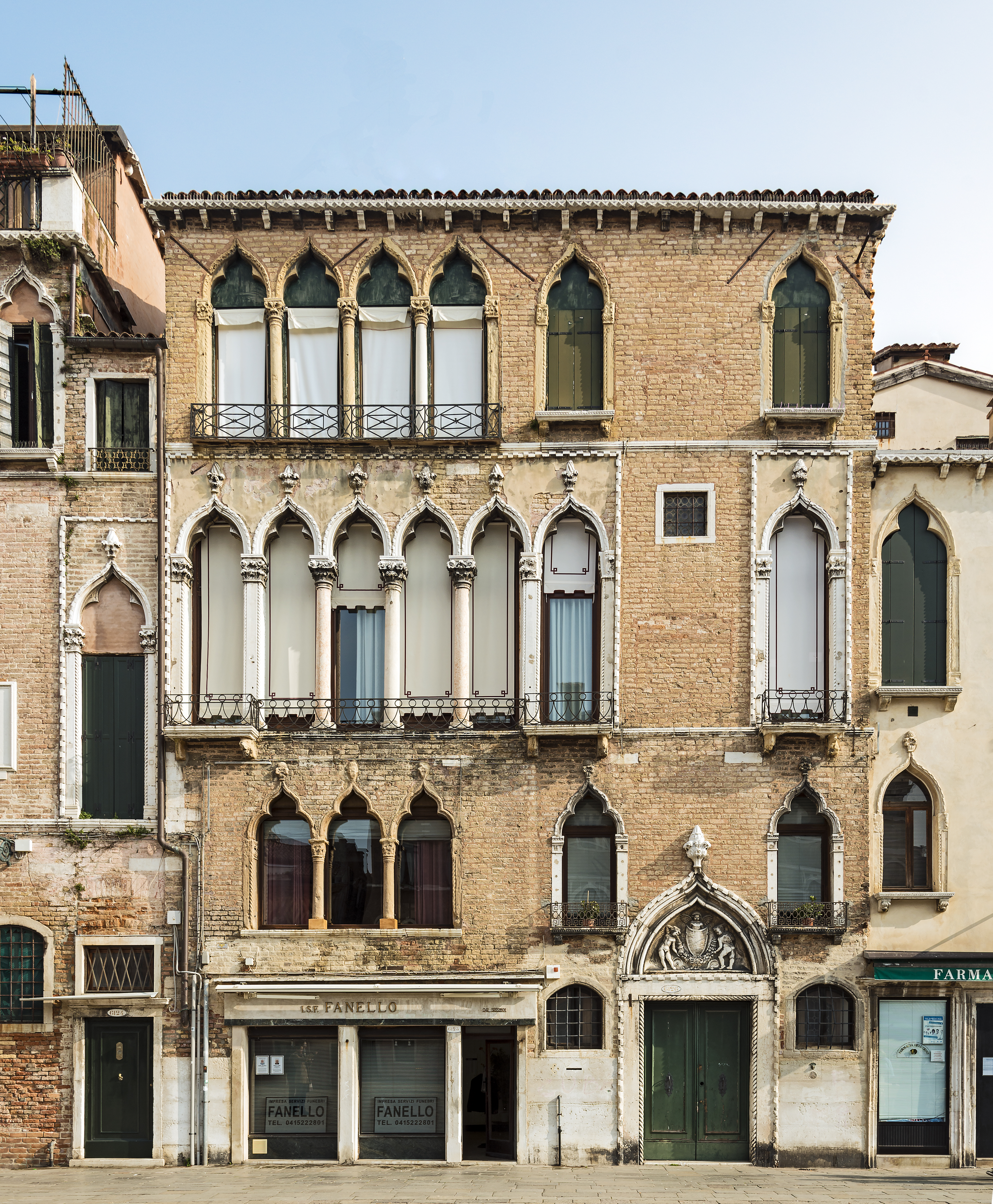 Palazzi Donà - The right palace (3 palaces complex) - Campo Santa Maria Formosa, Venice.